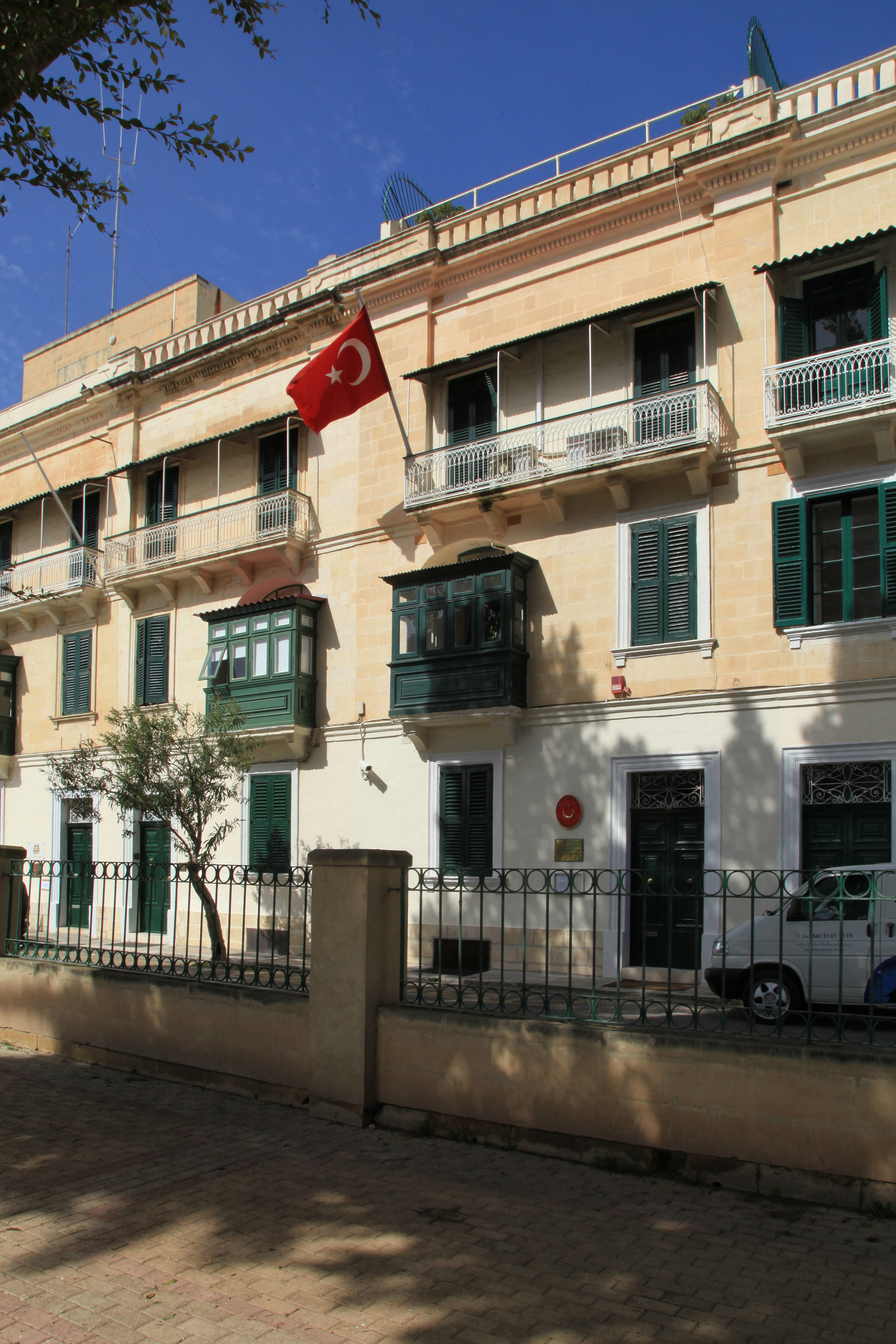 Turkish Embassy, Pjazza Sir Luigi Preziosi in Floriana, Malta